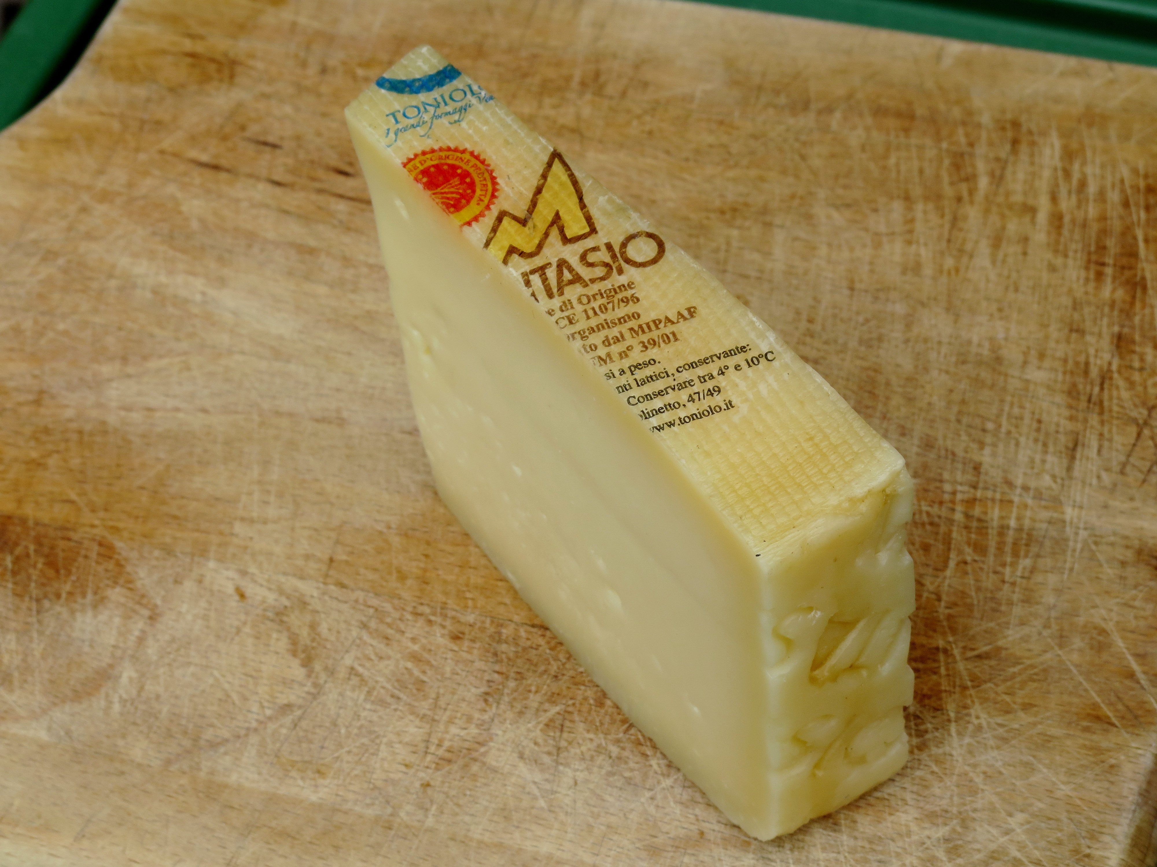 A slice of Montasio cheese